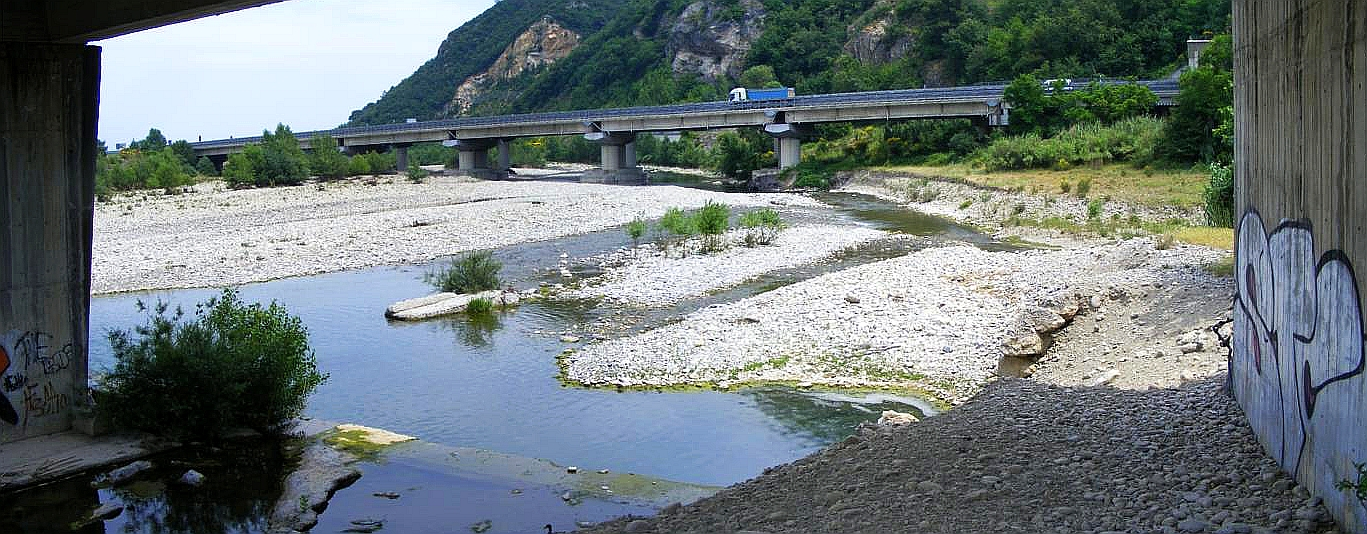 The confluence between Arroscia and Lerrone creeks in Villanova d'Albenga (SV, Italy); in the background A10 motorway